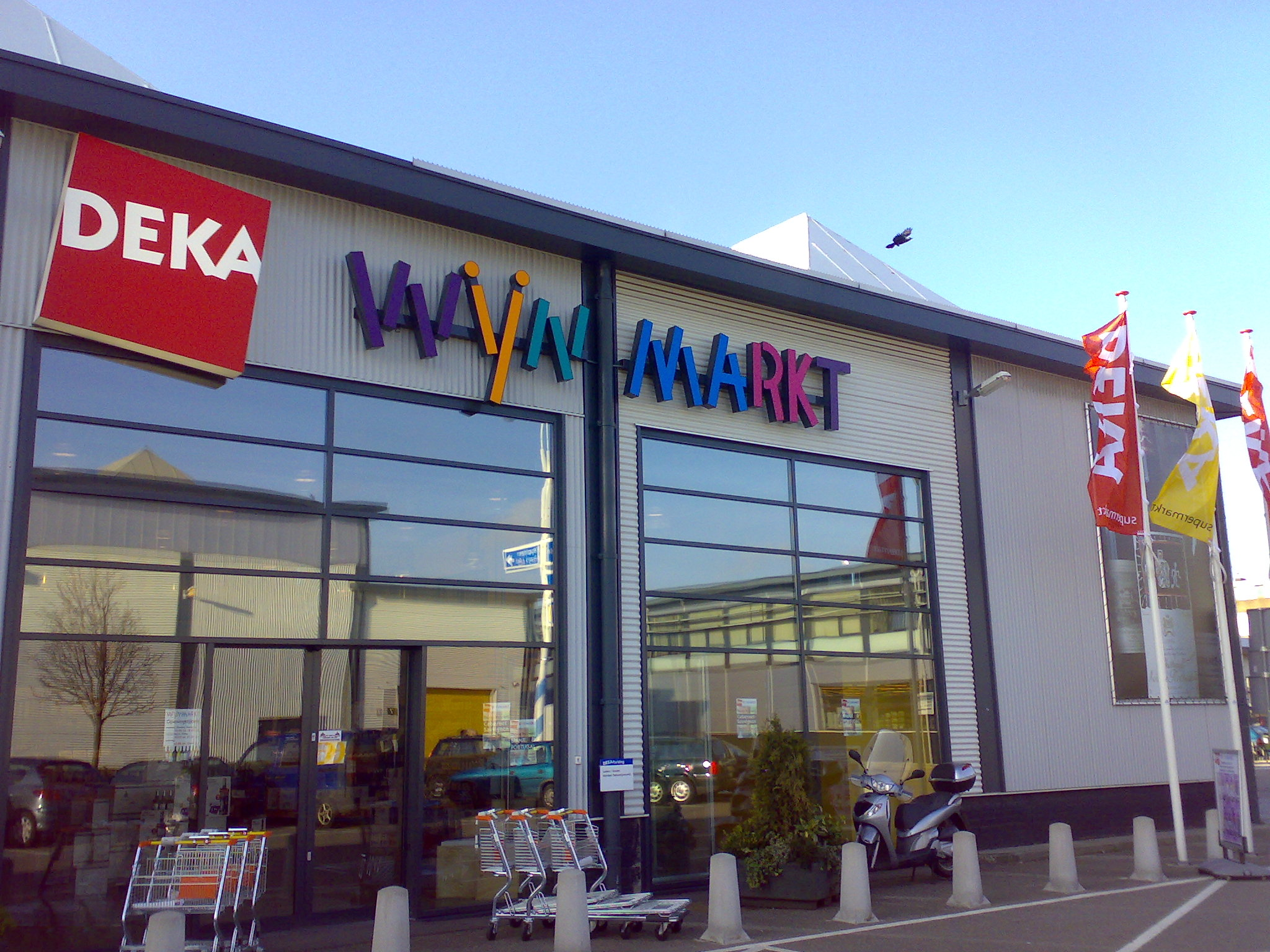 Special wine-store related to the supermarket Dekamarkt in Beverwijk, The Netherlands